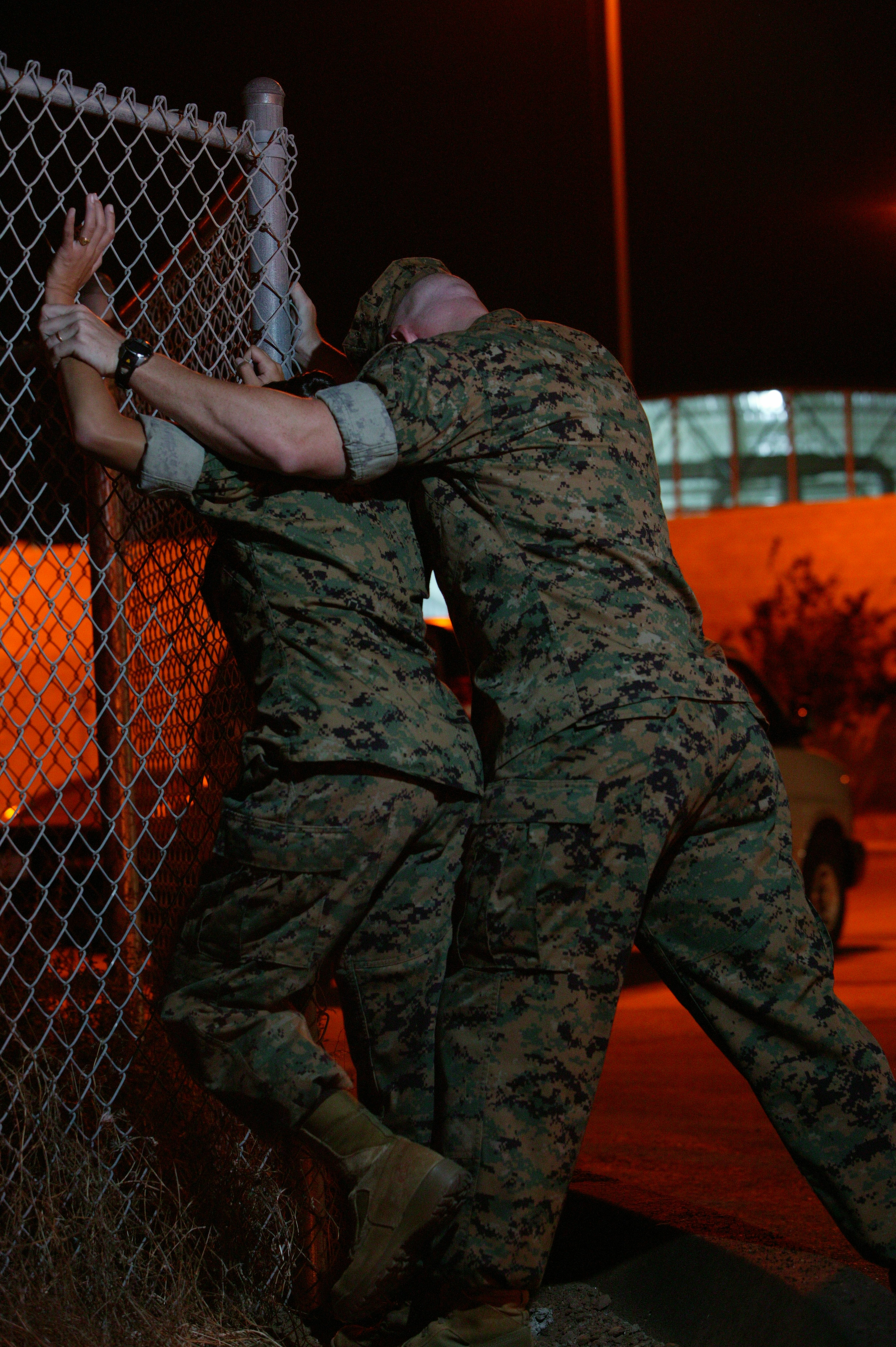 Rising sexual assault statistics Department of Defense- wide prompted each branch of service to enact revised response programs. Members of the Headquarters Marine Corps Sexual Assault Prevention and Response Office came to Marine Corps Air Station Miramar Sept.12-13 and 15-16 to provide training to Marines designated as Uniformed Victim Advocates.